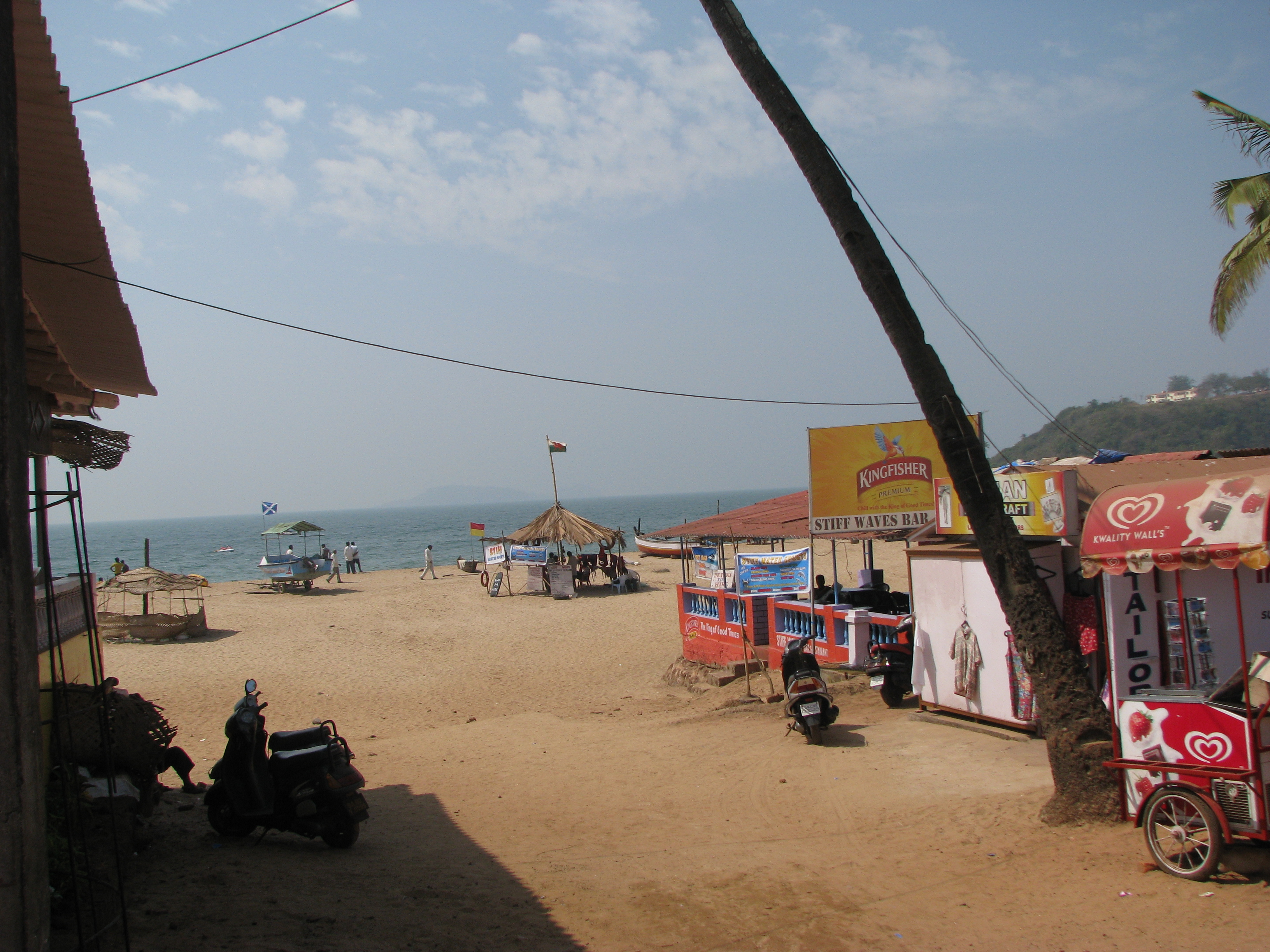 Beach scene and Bogmalo, Goa, India